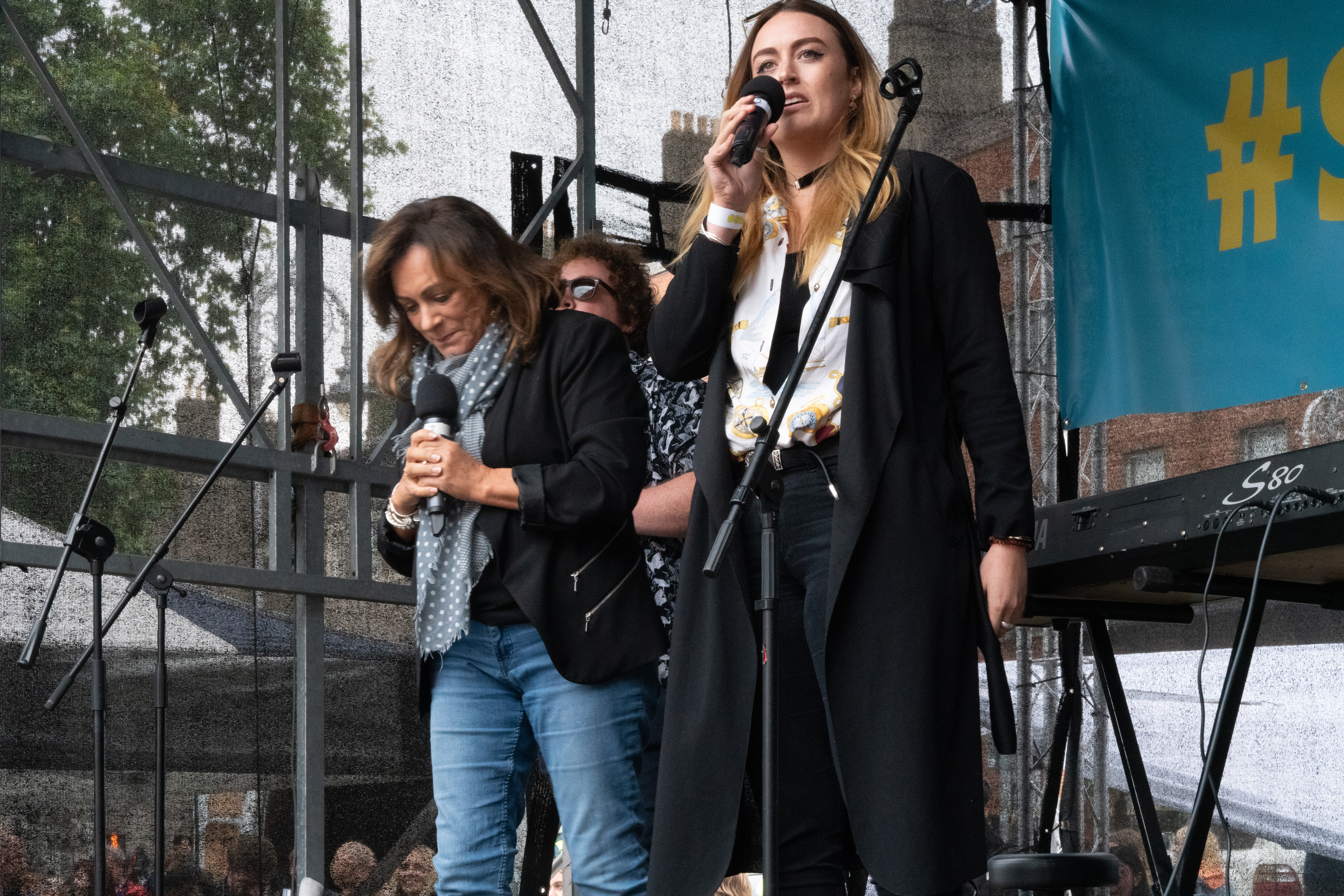 Róisín O On Stage With Mary Black Her Mother At The Stand For The Truth Event in 2018